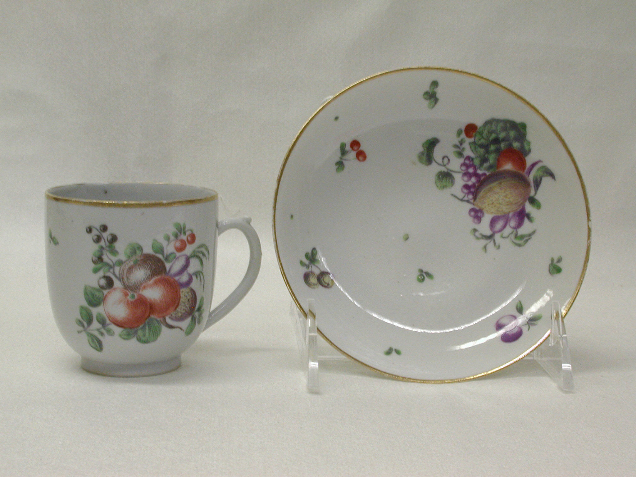 Italian, Venice; Cup and saucer; Ceramics-Porcelain